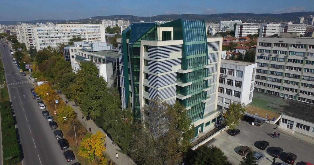 The Building of the Faculty of Pharmacy, Medical University of Varna